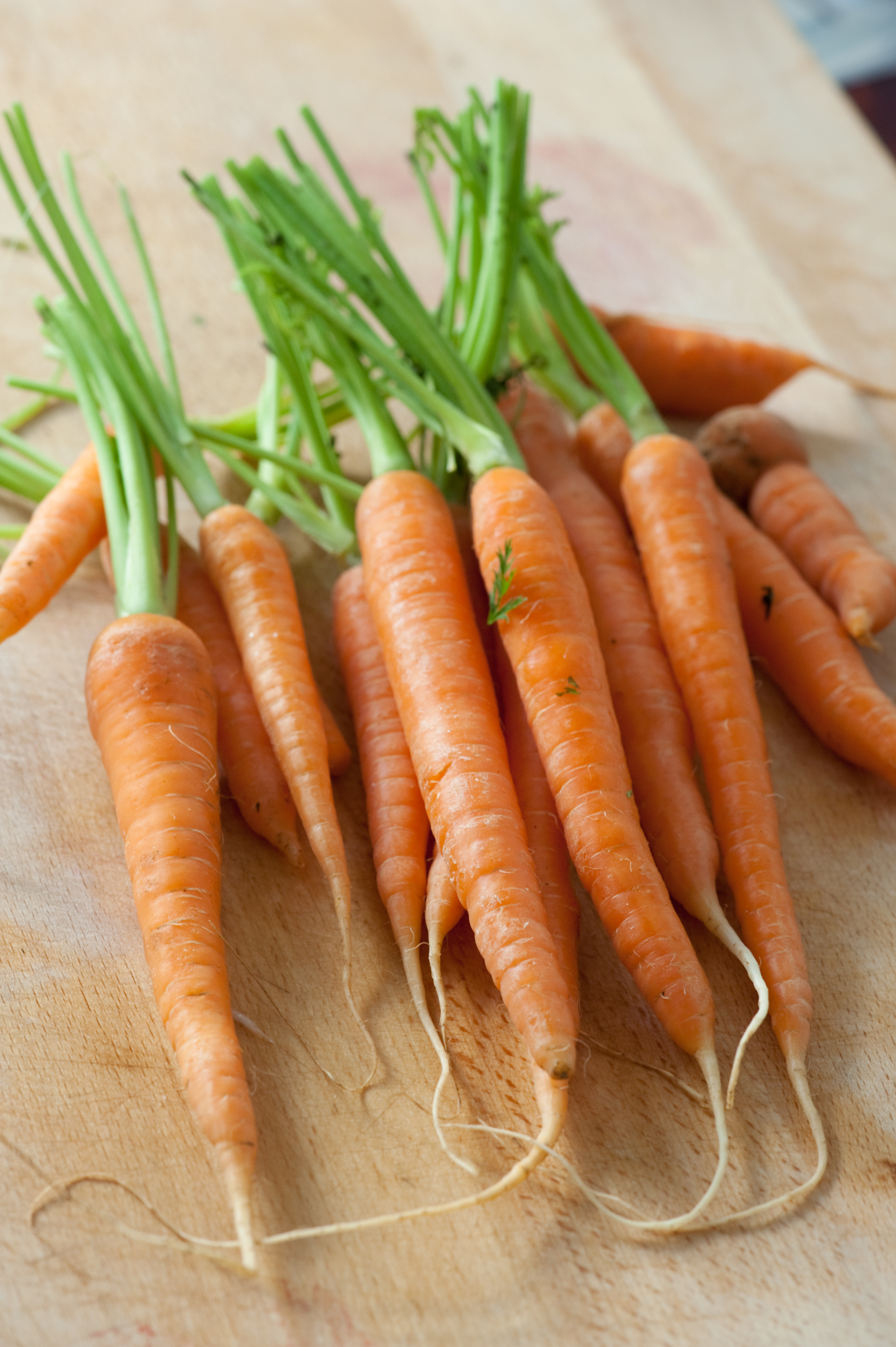 Baby carrots.